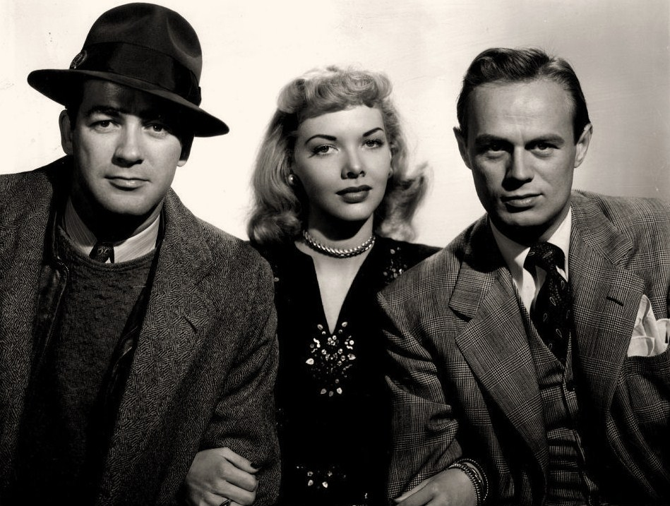 L. to R. : Mark Stevens, Barbara Lawrence, and Richard Widmark in The Street with No Name (1948) - publicity still (cropped : see source).